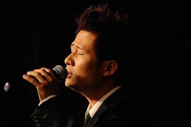 Bang Kieu